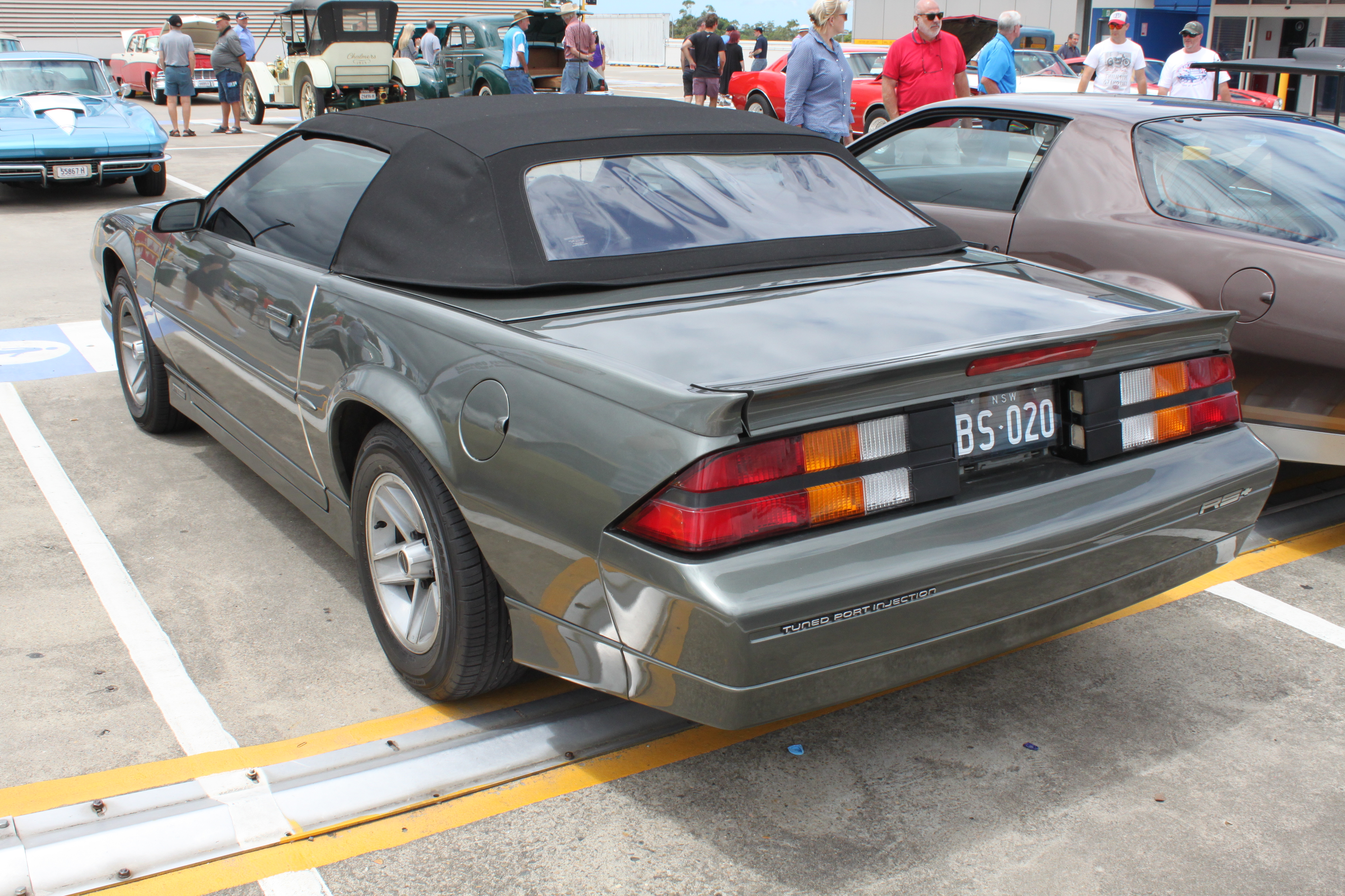 All American Car Show, Castle Hill, NSW January 2016